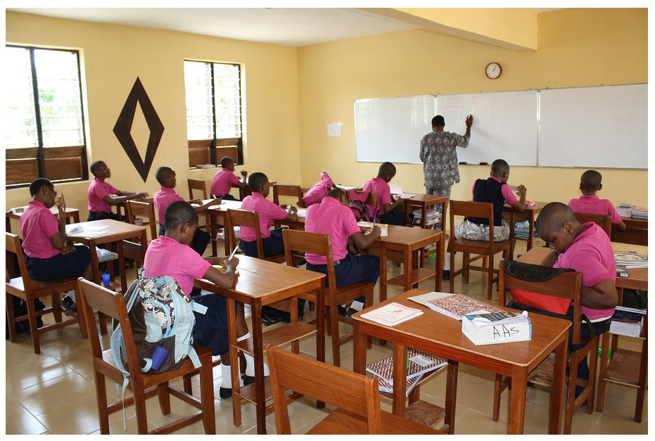 Students during a class session